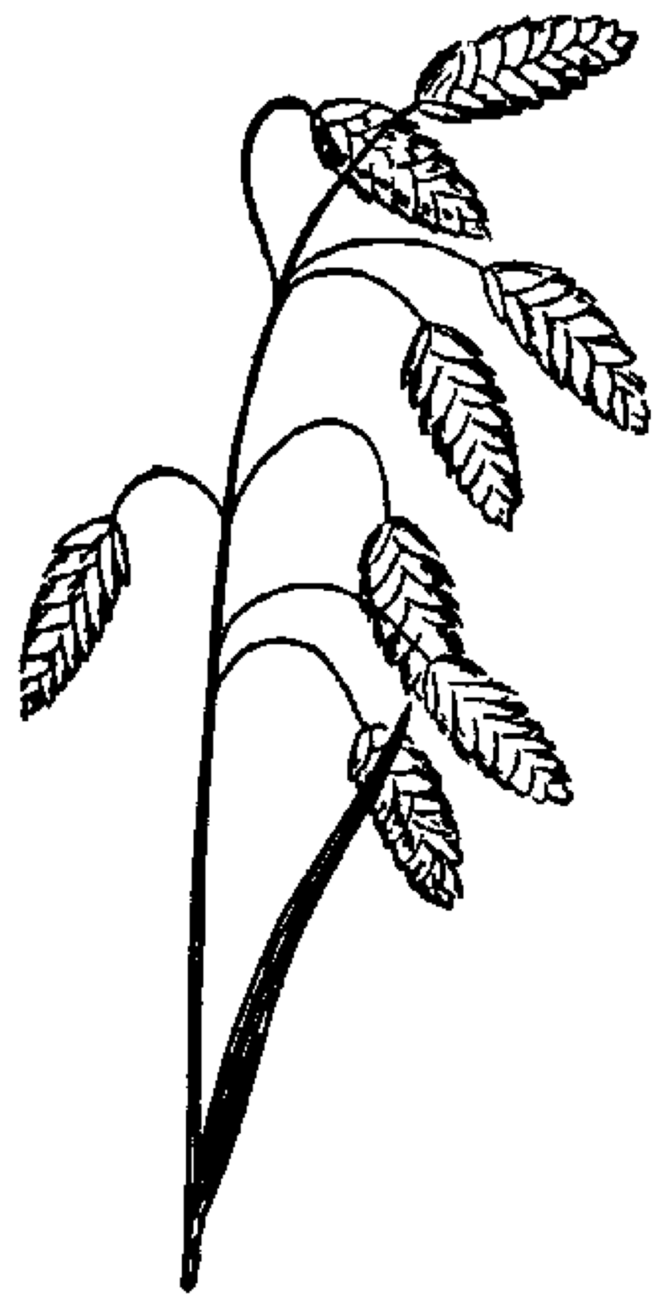 Bromus briziformis Fisch. & C.A. Mey. - rattlesnake brome